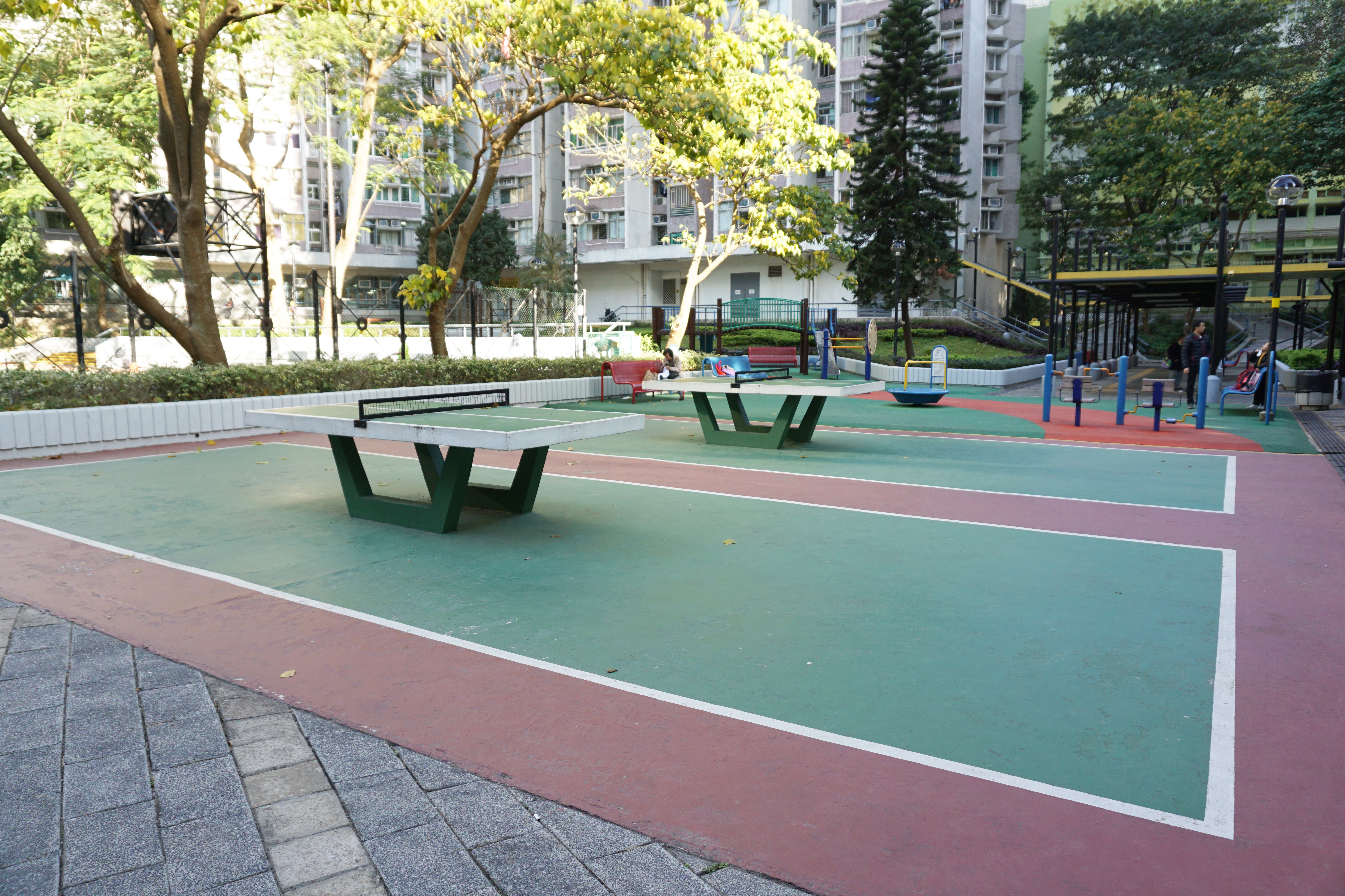 Yiu On Estate in Ma On Shan, Hong Kong.